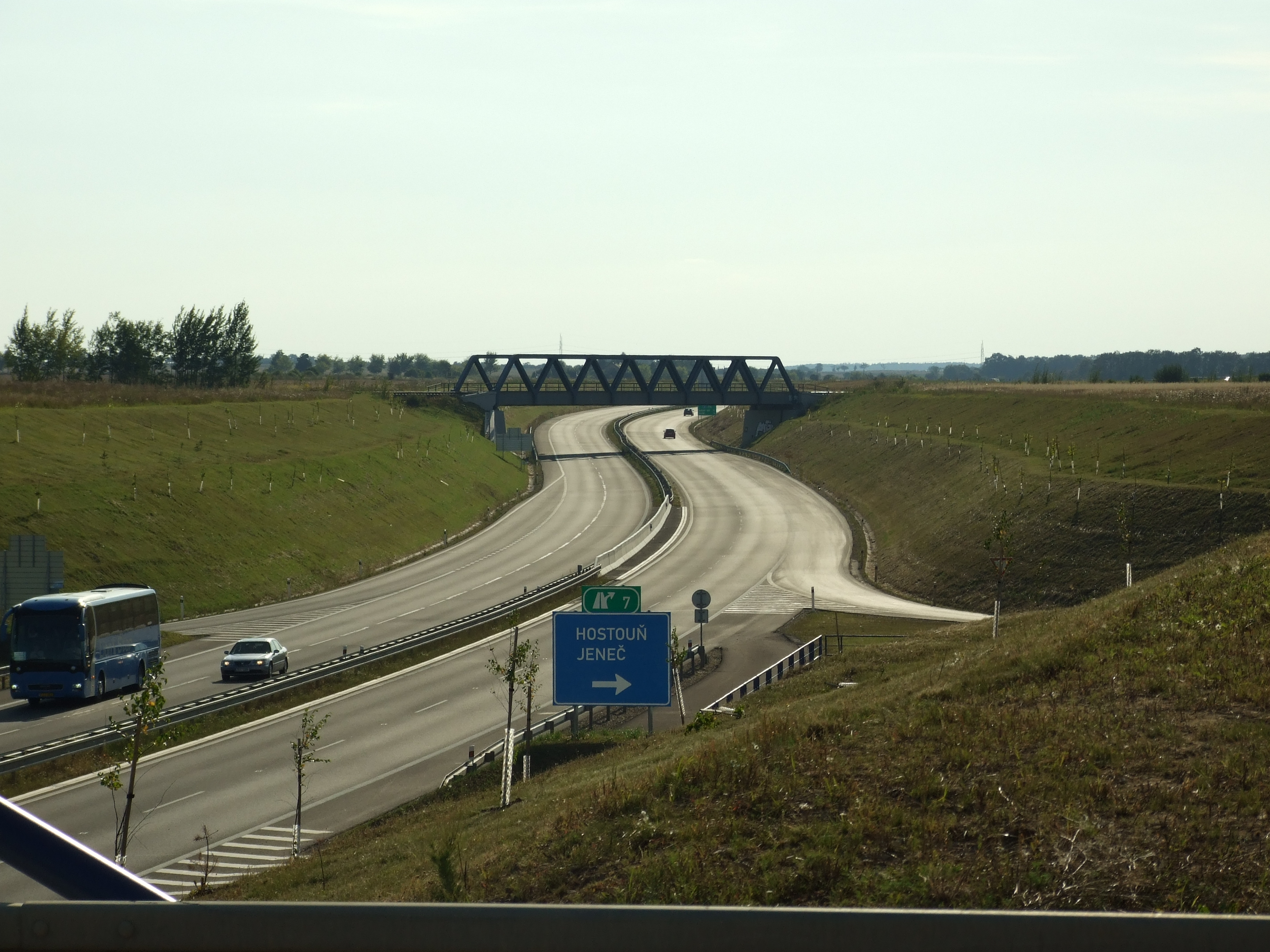 R6 expressway in Jeneč, Central Bohemian Region, the Czech Republic.